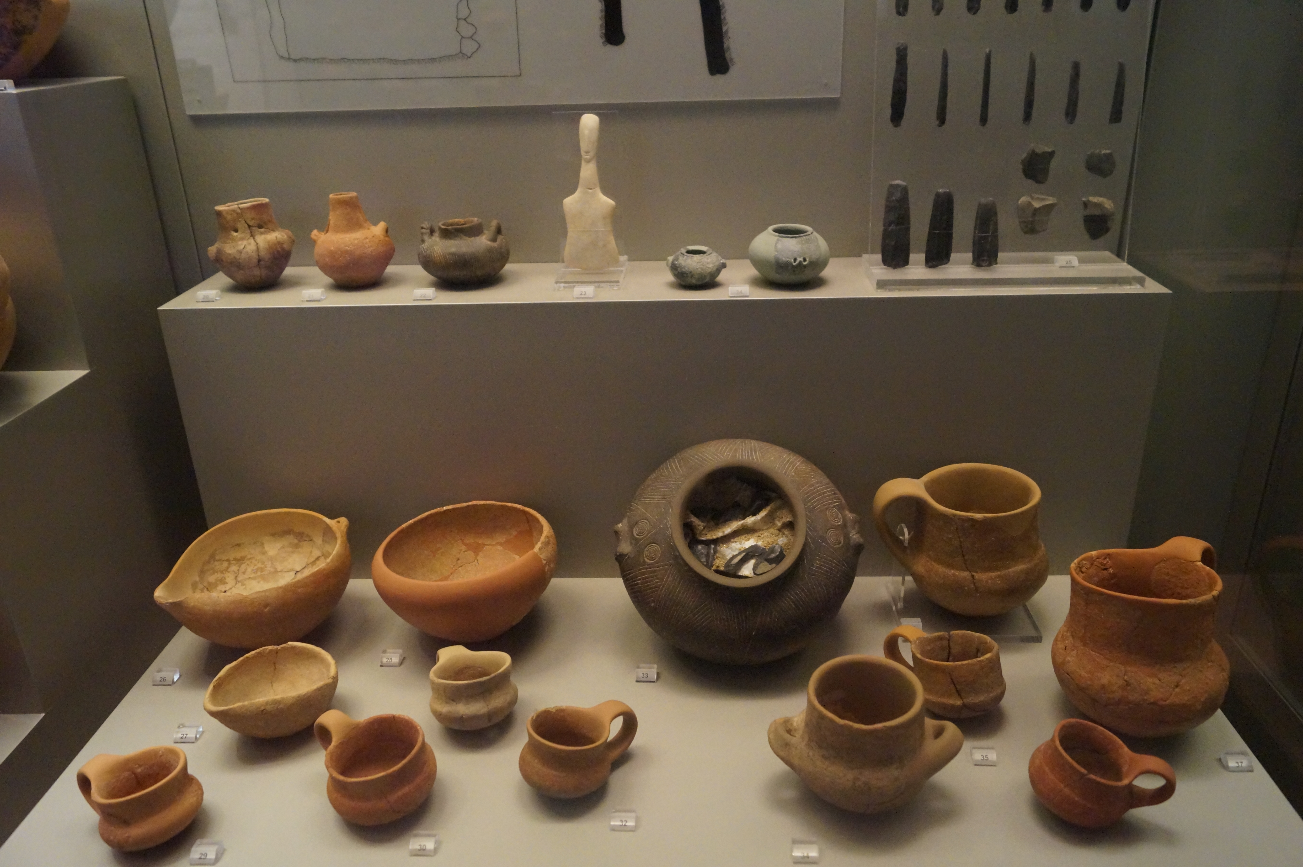 National Archaeological Museum of Athens: Finds from the Early Bronze Age cemetery on the promontory of Agios Kosmas in Attica.